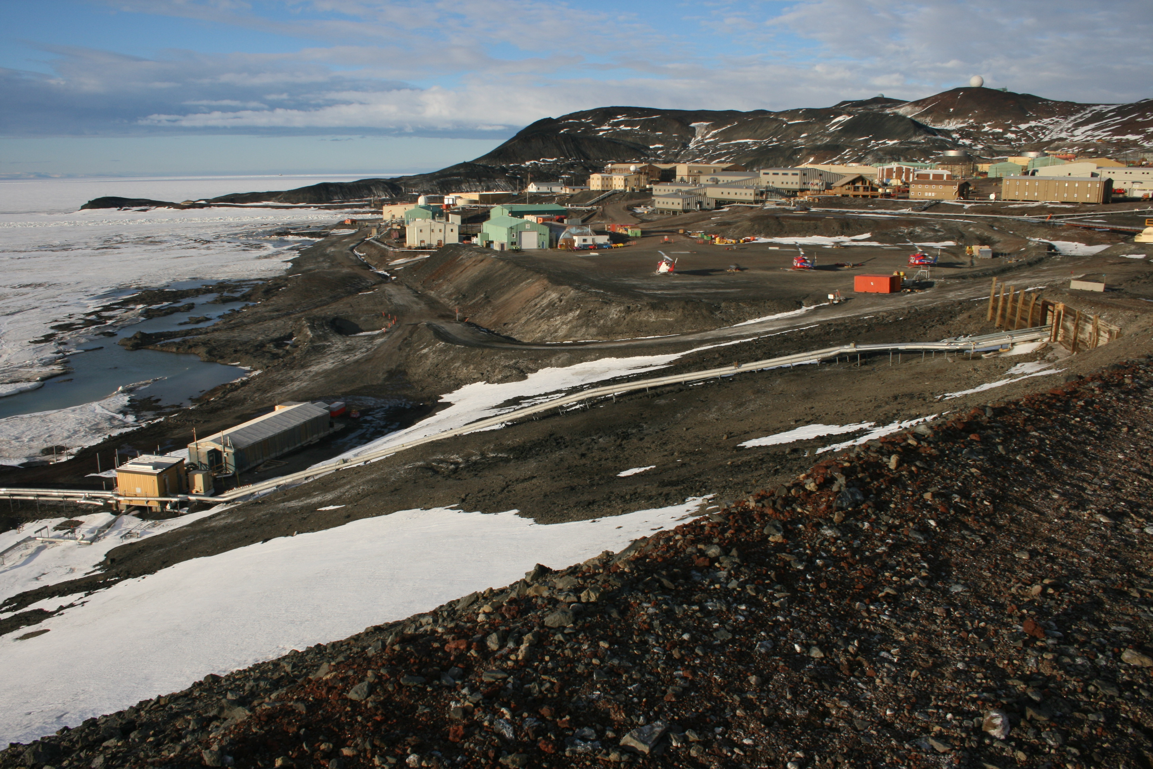 A view of McMurdo Station, Antarctica.